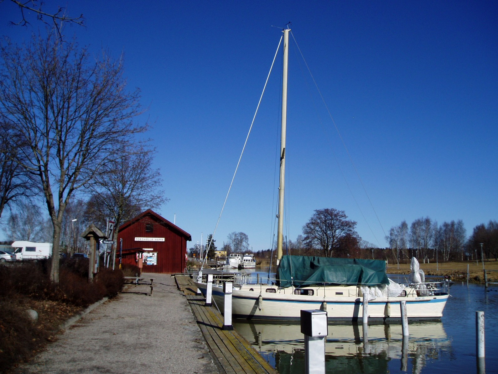 Torshälla harbor, Sweden